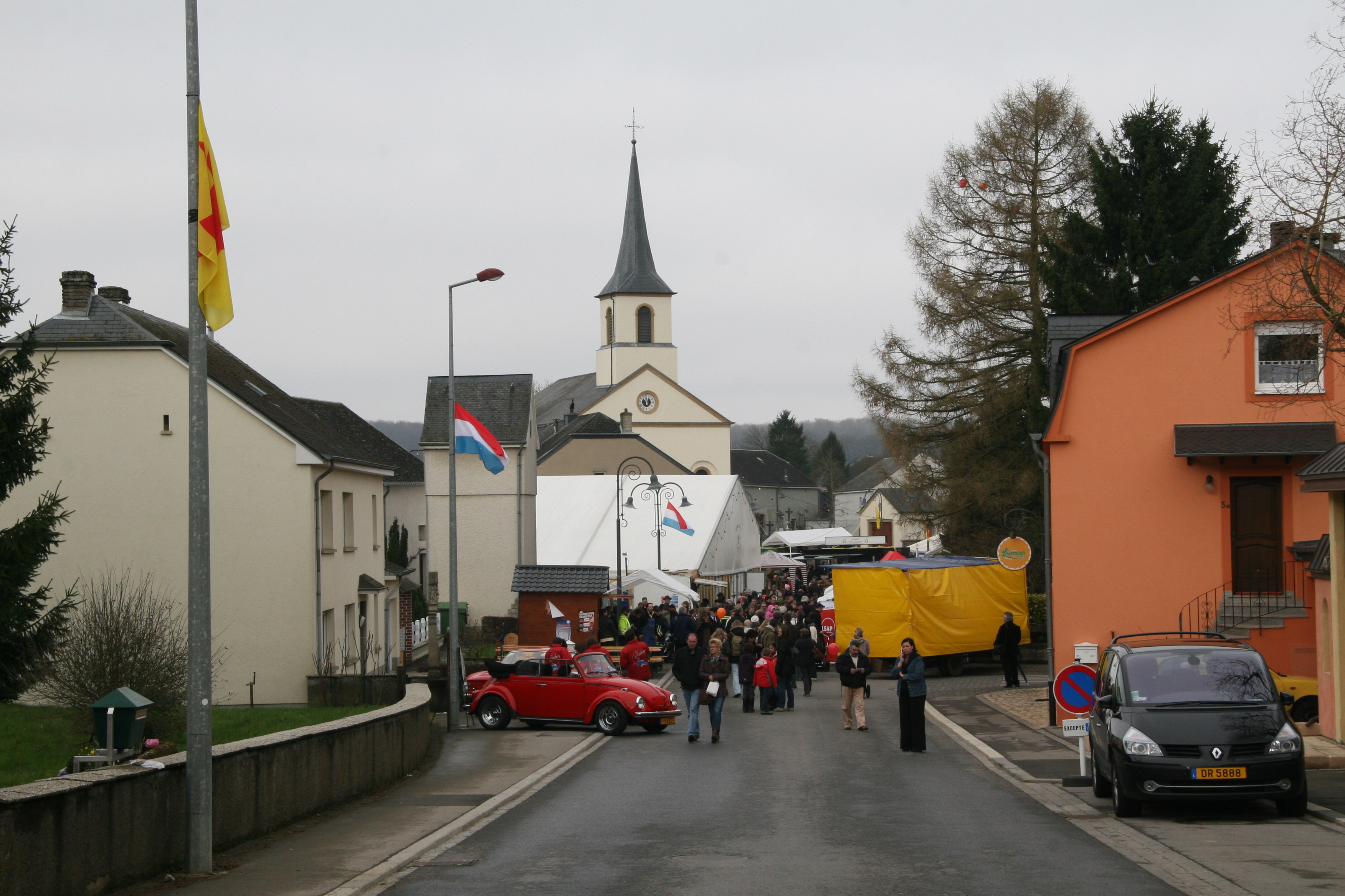 "Eemaischen", traditional market in Nospelt, Luxembourg.